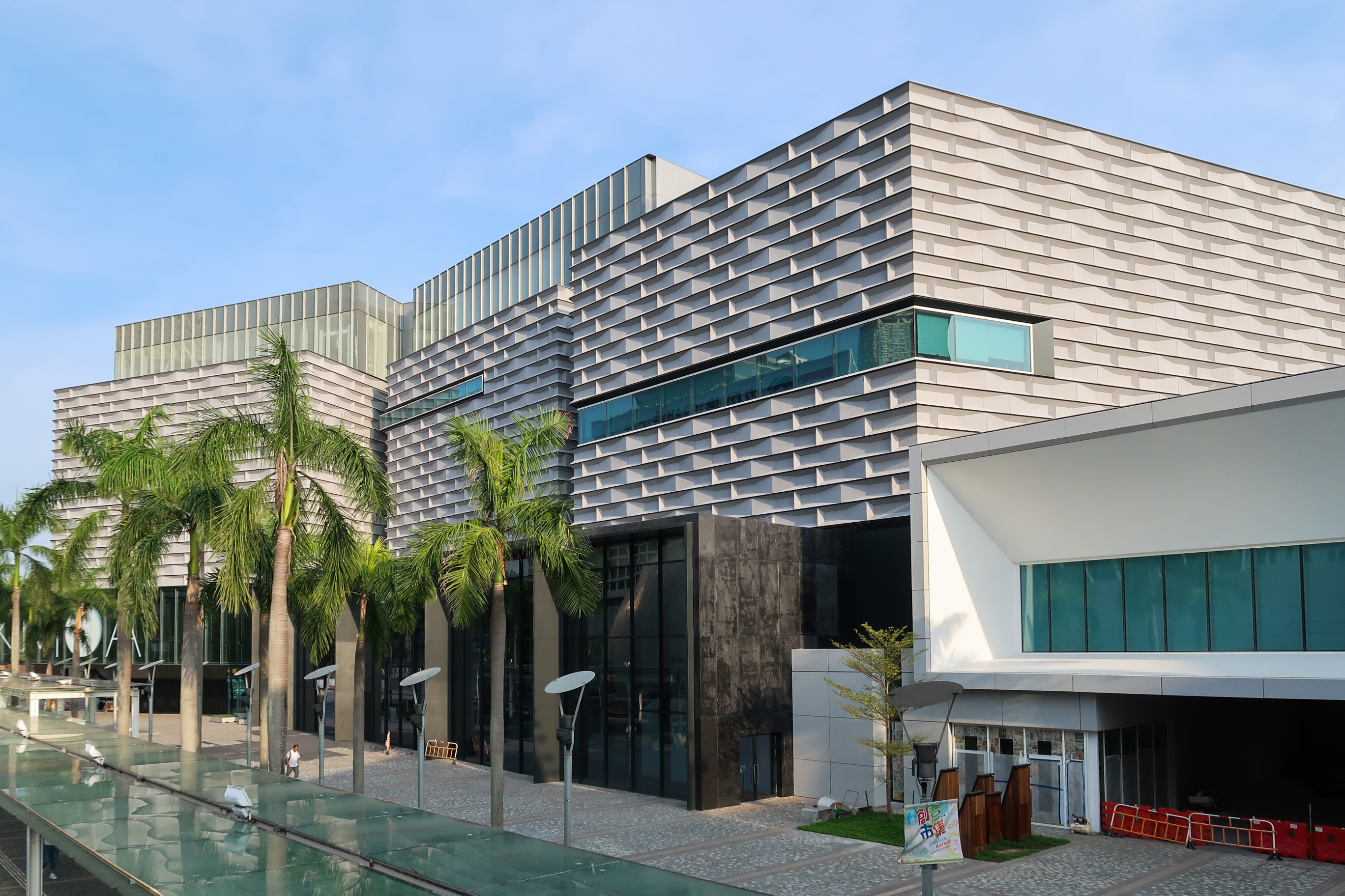 Hong Kong Museum of Art renovation site